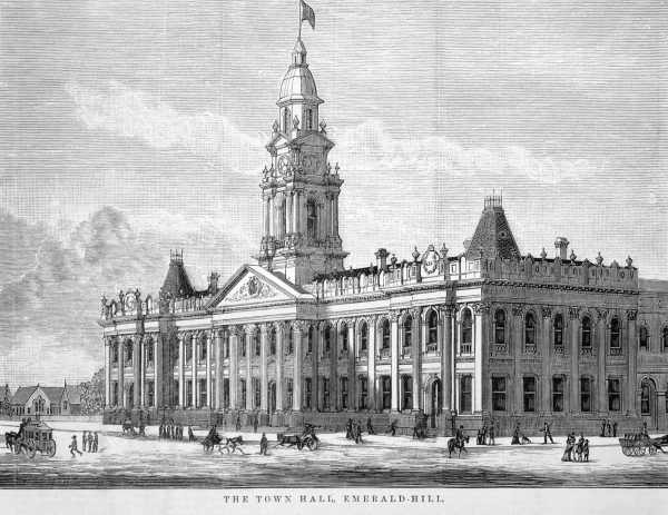 South Melbourne Town Hall in 1880. 02/03/2010 - en: File:South melbourne town hall in 1880.jpg c: File:South melbourne town hall in 1880.jpg.